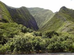 Iao Valley, in Maui. Photo by LDC, released to the public domain.